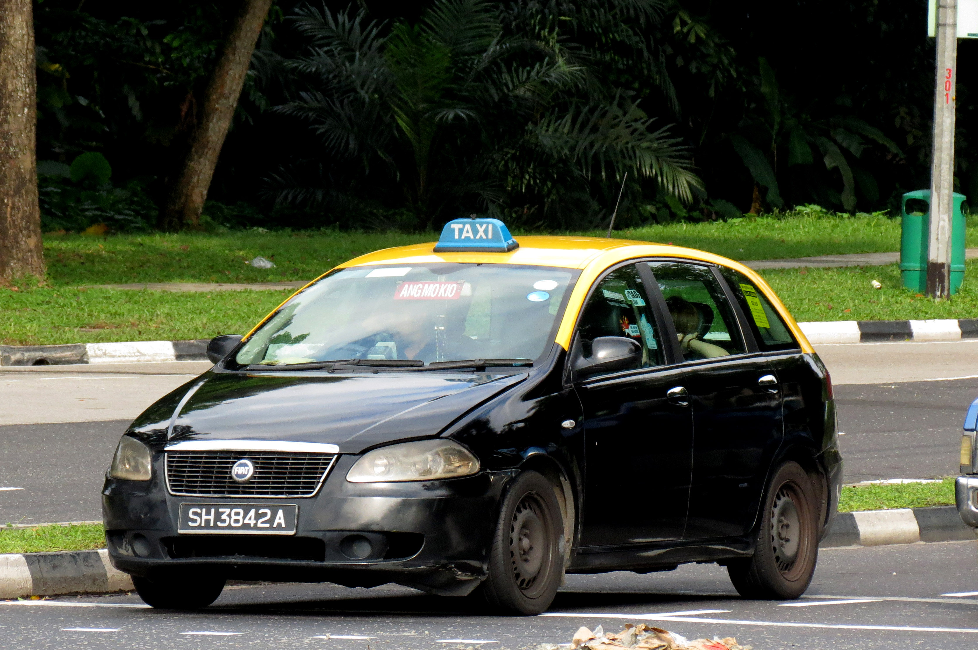 A privately-owned Fiat Croma under YellowTop Cab.